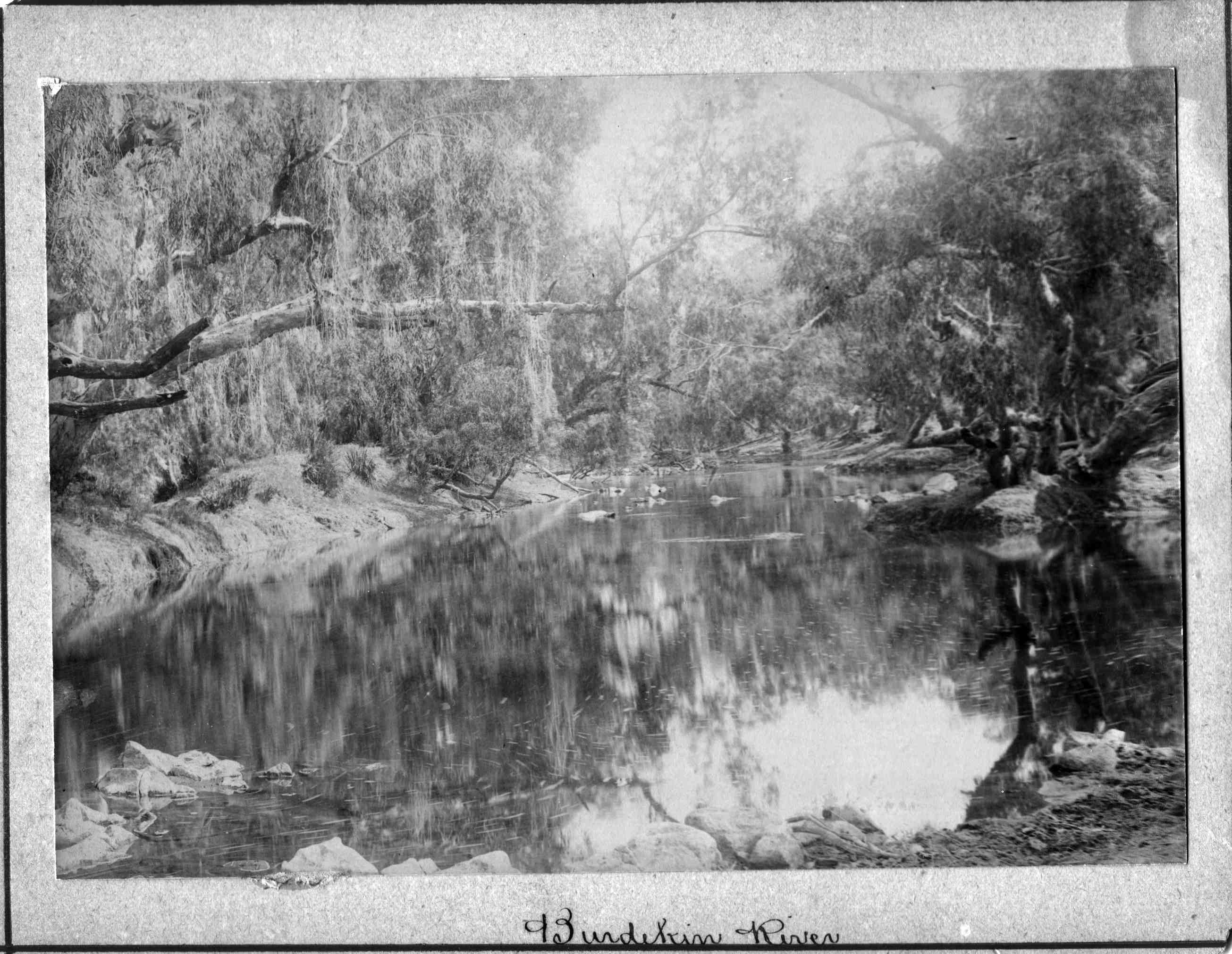 Burdekin River, Charters Towers